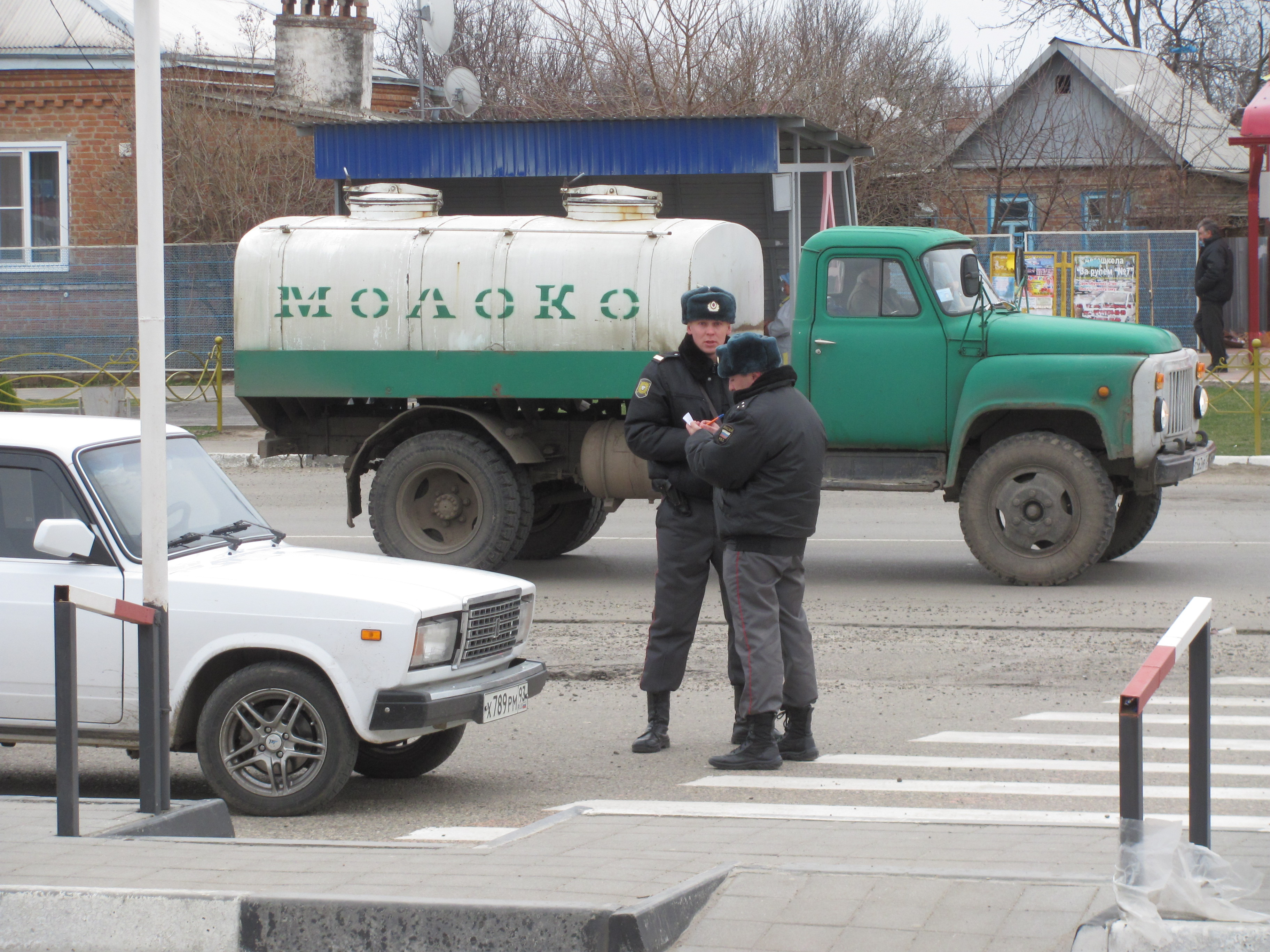 GAZ-53 milk tank truck in Caucasus